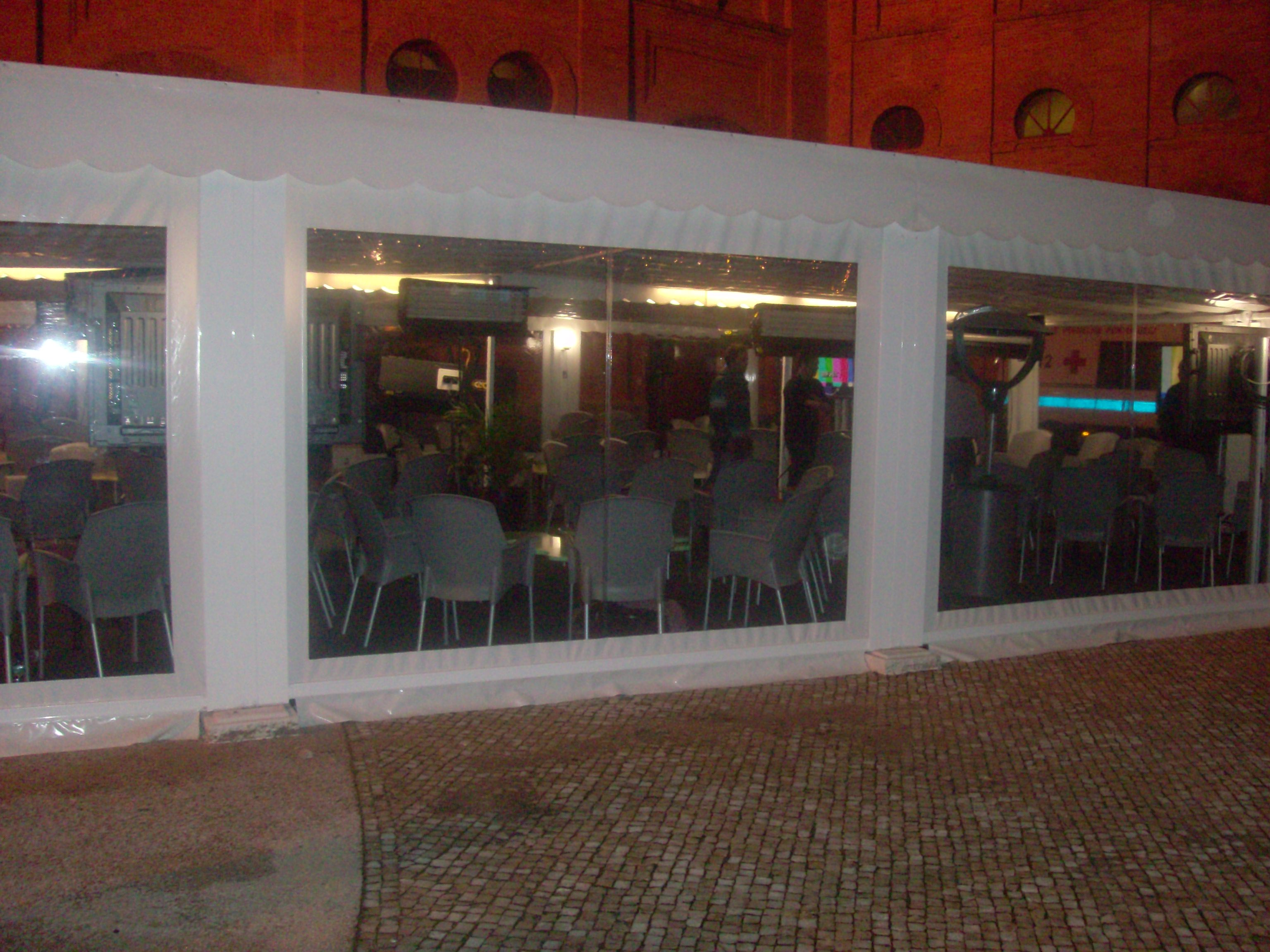 Festival RTP da Canção 2010 1st semifinal